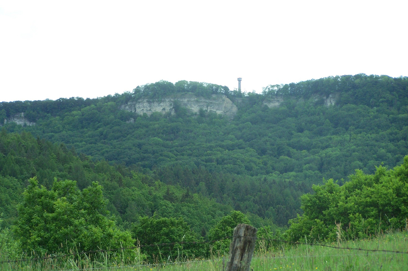 The Heldrastein seen from Großburschla.